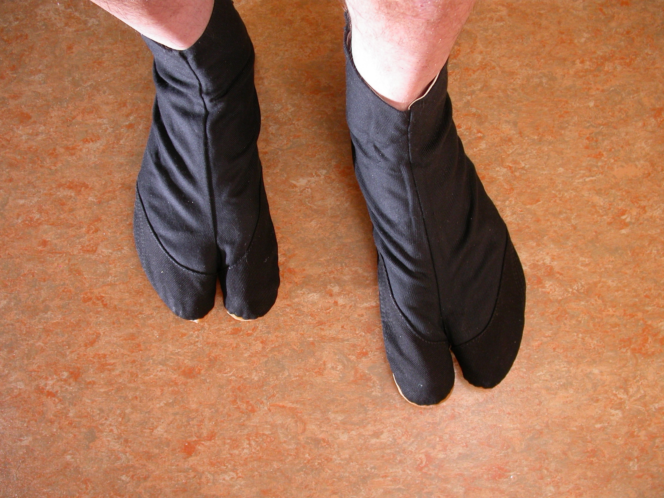 Rare size 30 (cm) with thin rubber sole and rear clip closure. Bought for Japanese drum lesson. Normally used by construction workers for their better feel, grip and flexibility when balancing on the beams. Strobist info: two slave flashes on small tripods on floor right side aimed to wall and door, left side farther away and direct. Triggered by on-board flash deflected upwards by adhesive aluminum tape.